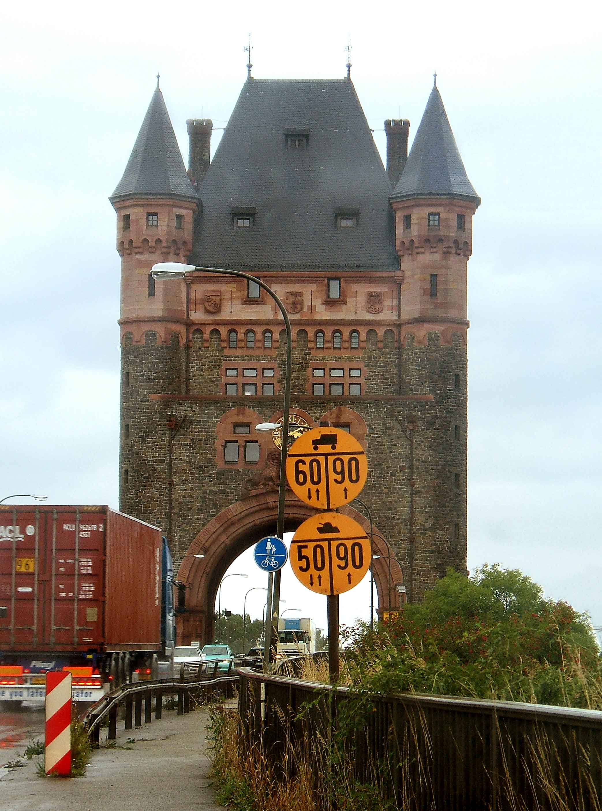 Sign "Military Load Class" at the Rhine Bridge in Worms, Germany Picture Taken in August 2005 Camera: Fujifilm FinePix E550 Zoom Picture is refined by Ralf Roletschek